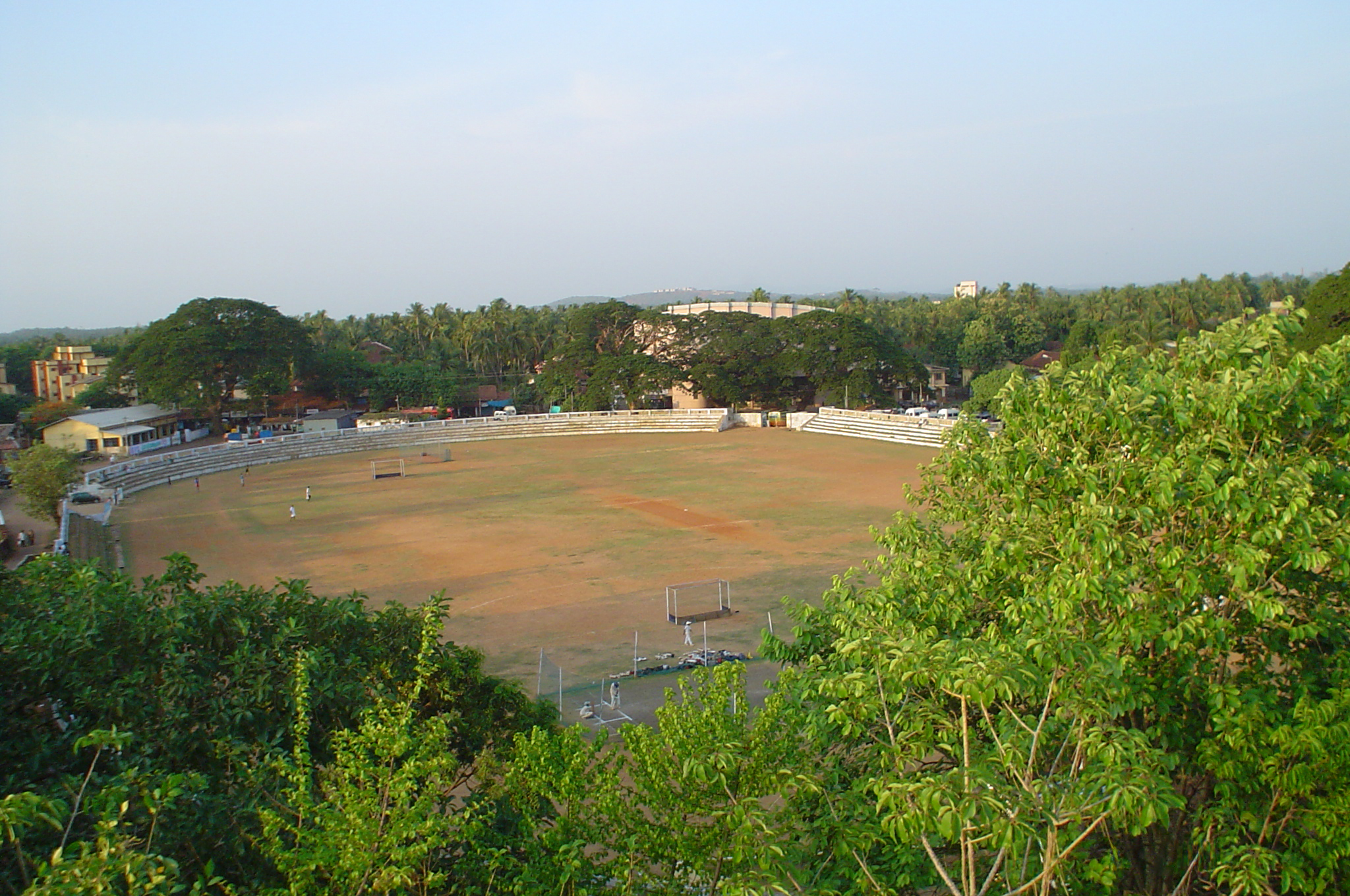 View of Thalassery Stadium. Photograph: Atul/Shijaz